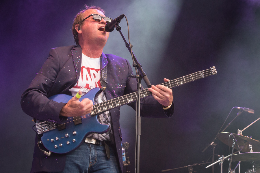 Mark King with Level 42 at the stage of Kirketorget. The concert was part of Kongsberg Jazzfestival and took place on 06. July 2017. Lineup:Mark King (bass guitar)Mike Lindup (keyboard)Unidentified (guitar)Unidentified (drums)Unidentified (saxophone)Unidentified (trumpet)Unidentified (trombone)